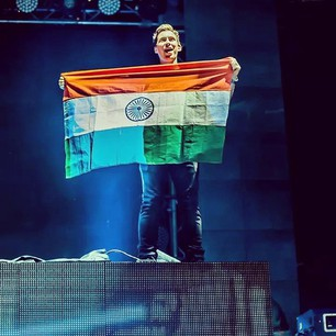 Hardwell with Indian flag